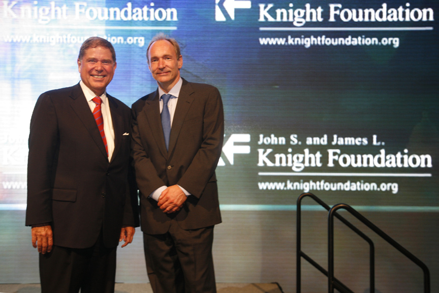 photo by Scott Henrichsen